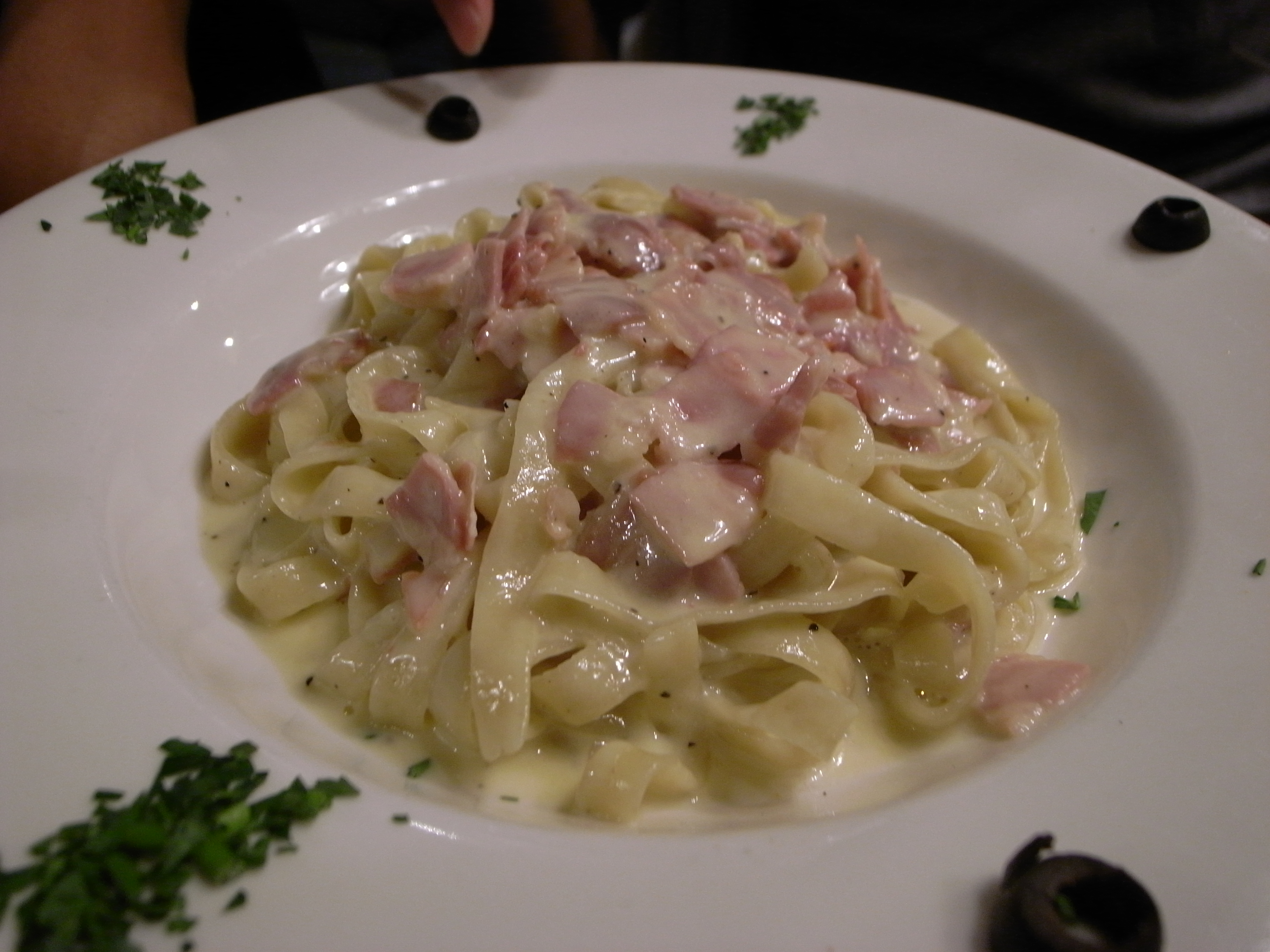 Fettucine Carbonara. Road to Rome at SF.